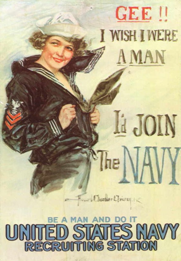 Recruiting poster made by and for the United States Navy c.1917. As a work of the United States Government, its use is in the public domain.